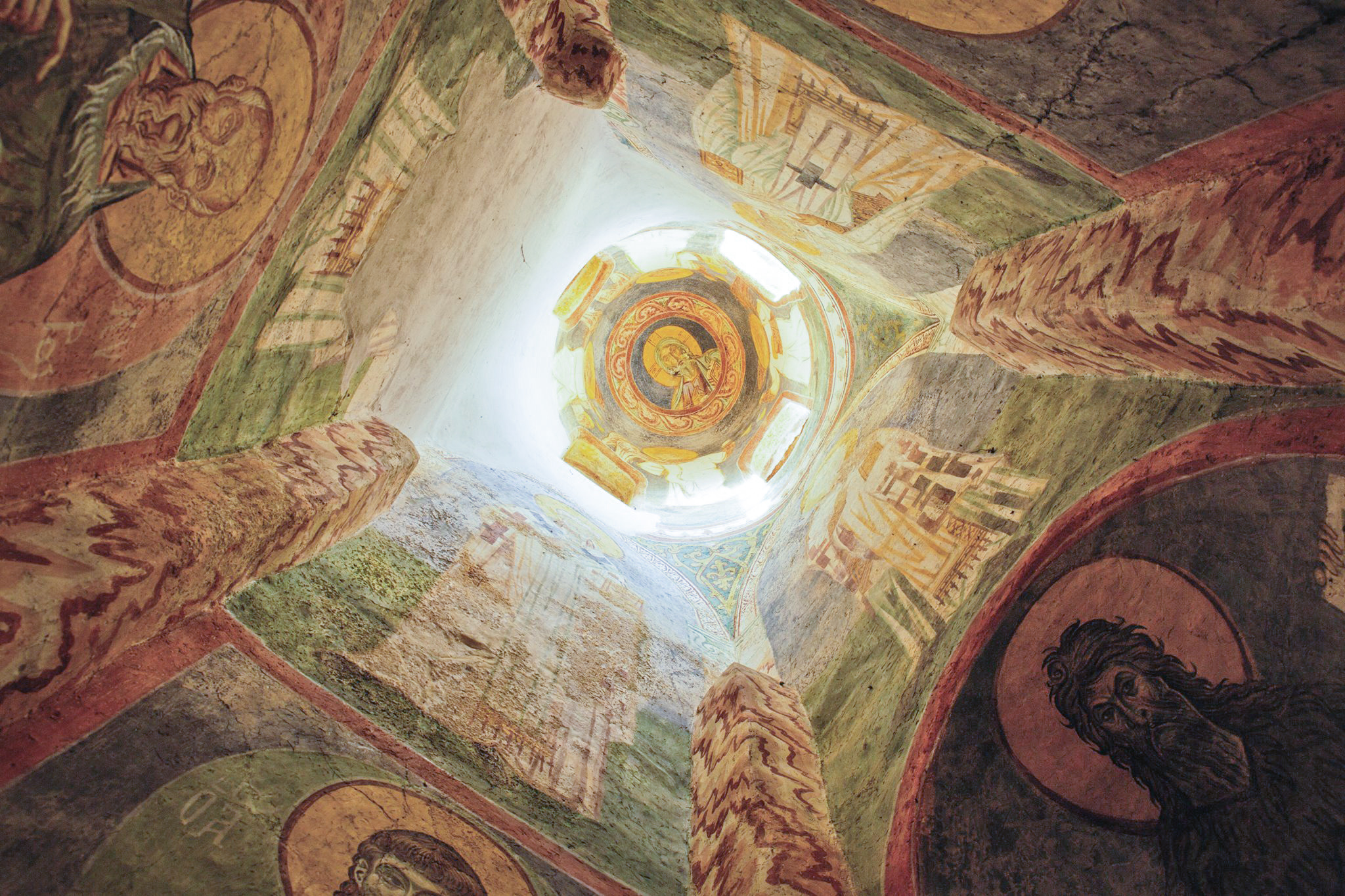 Frescos in St. Pantaleon Church in Nerezi near Skopje in Macedonia